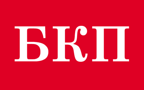 Logo of the Bulgarian Communist Party